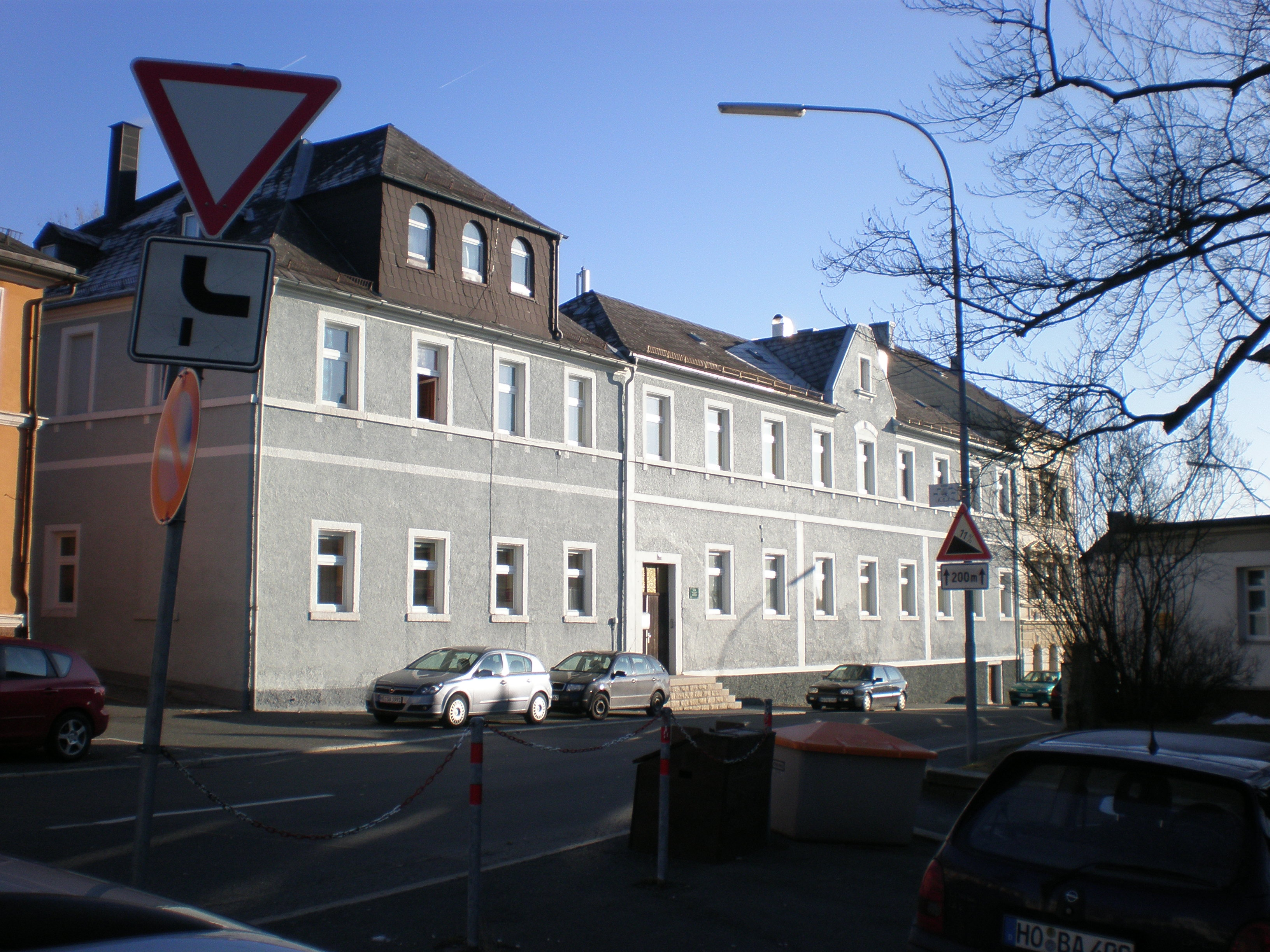 The former weavers' school in Münchberg.